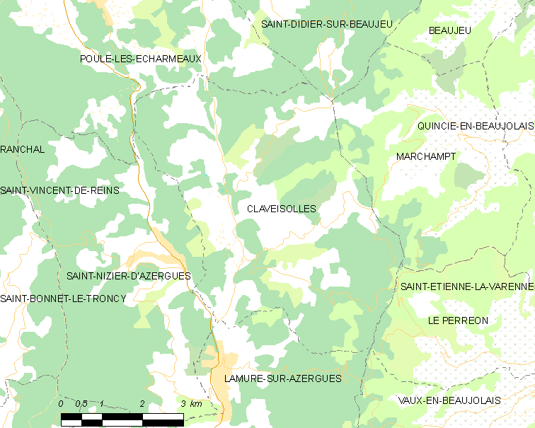 Map of French municipality